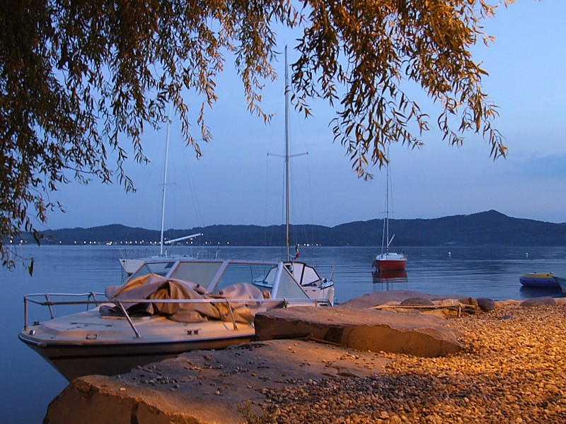 Lago di Viverone Picture taken by user Idéfix, august 22, 2006 This is a photography of Natura 2000 protected area with ID IT1110020